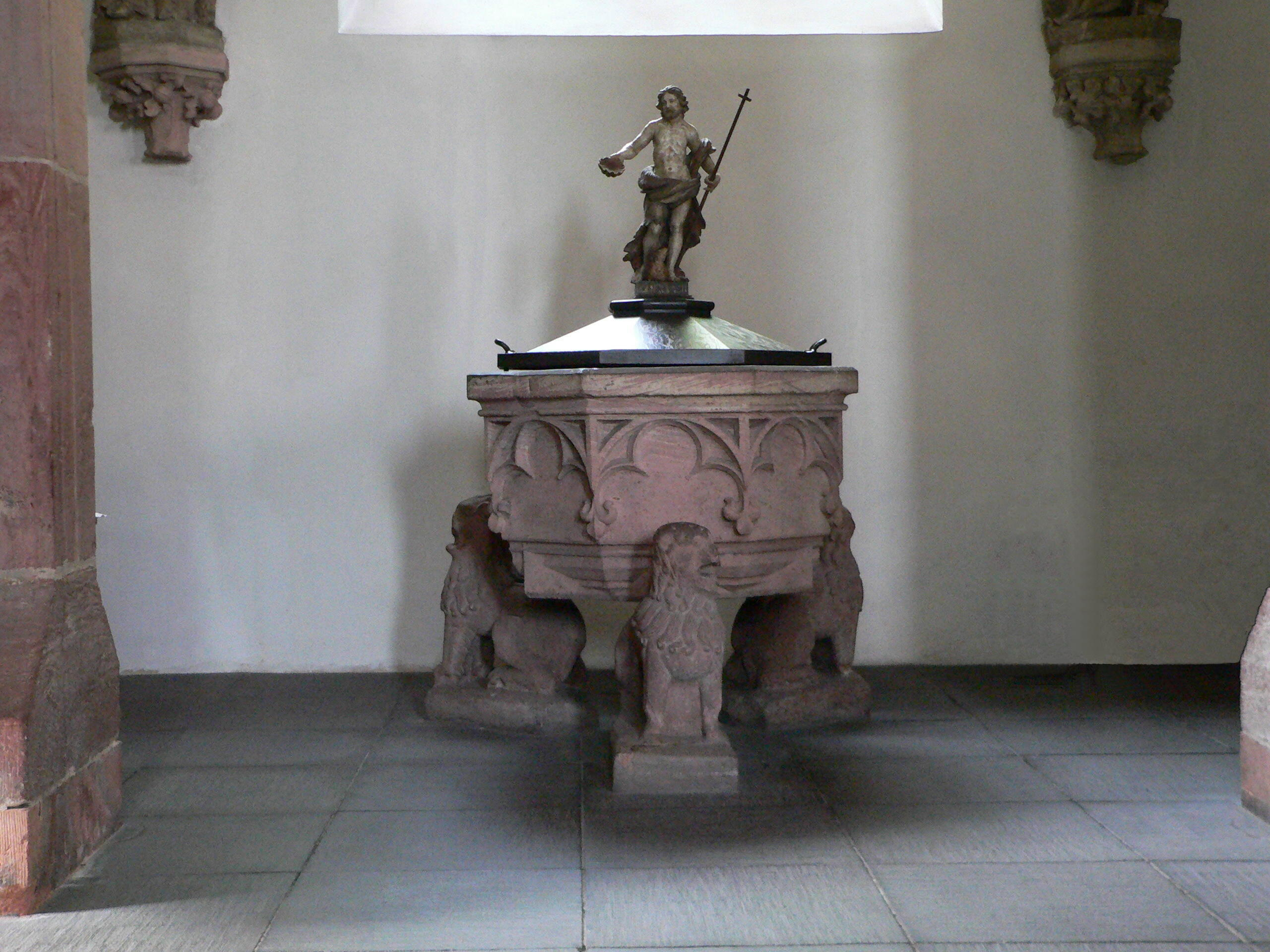 Baptismal font of St. Justin's Church in Frankfurt-Höchst